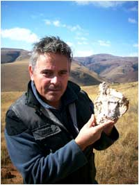 Michael Tellinger holding evidence for ancient civilization in South Africa